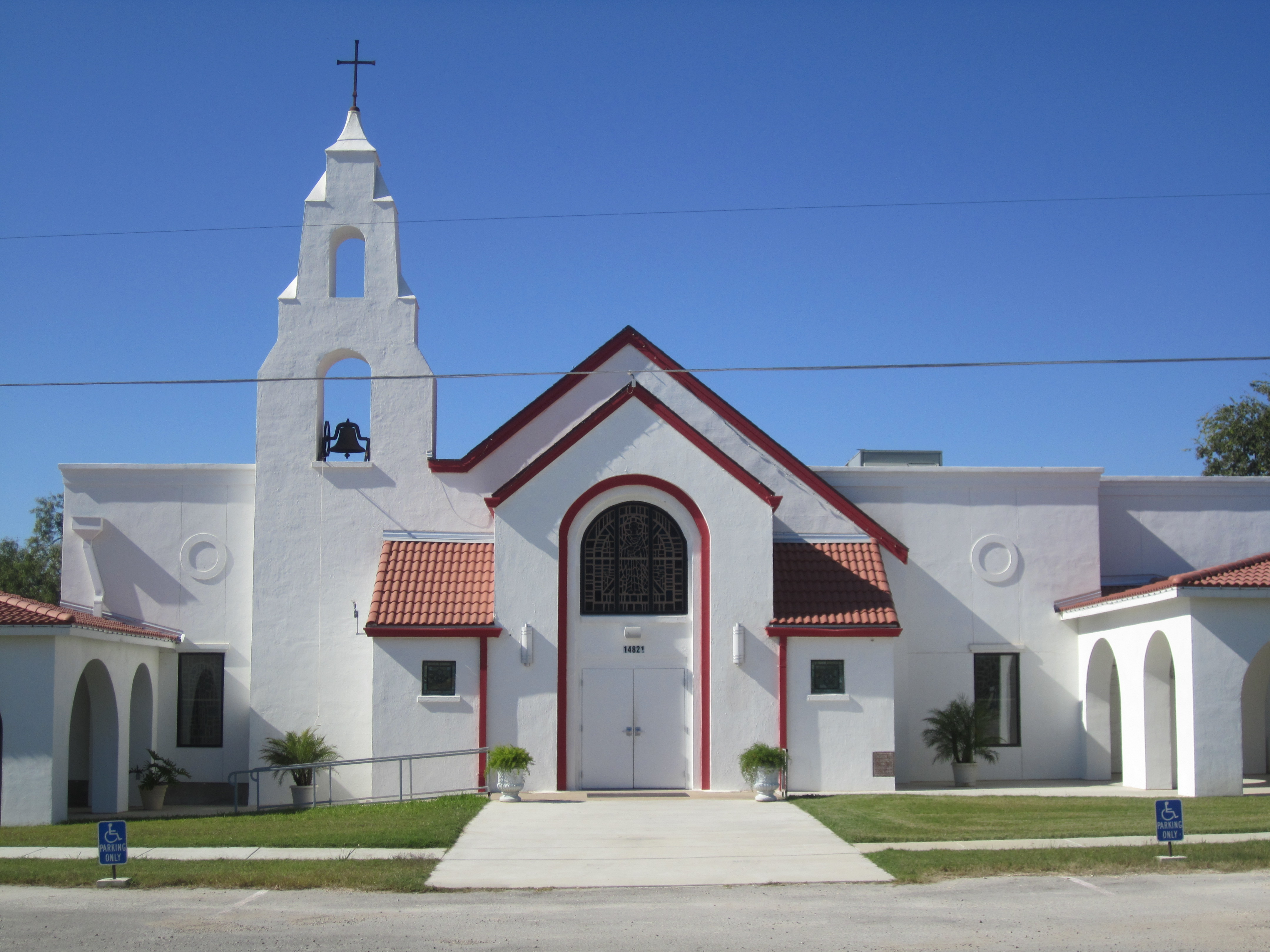 I took photo in Lytle, TX, with Canon camera.